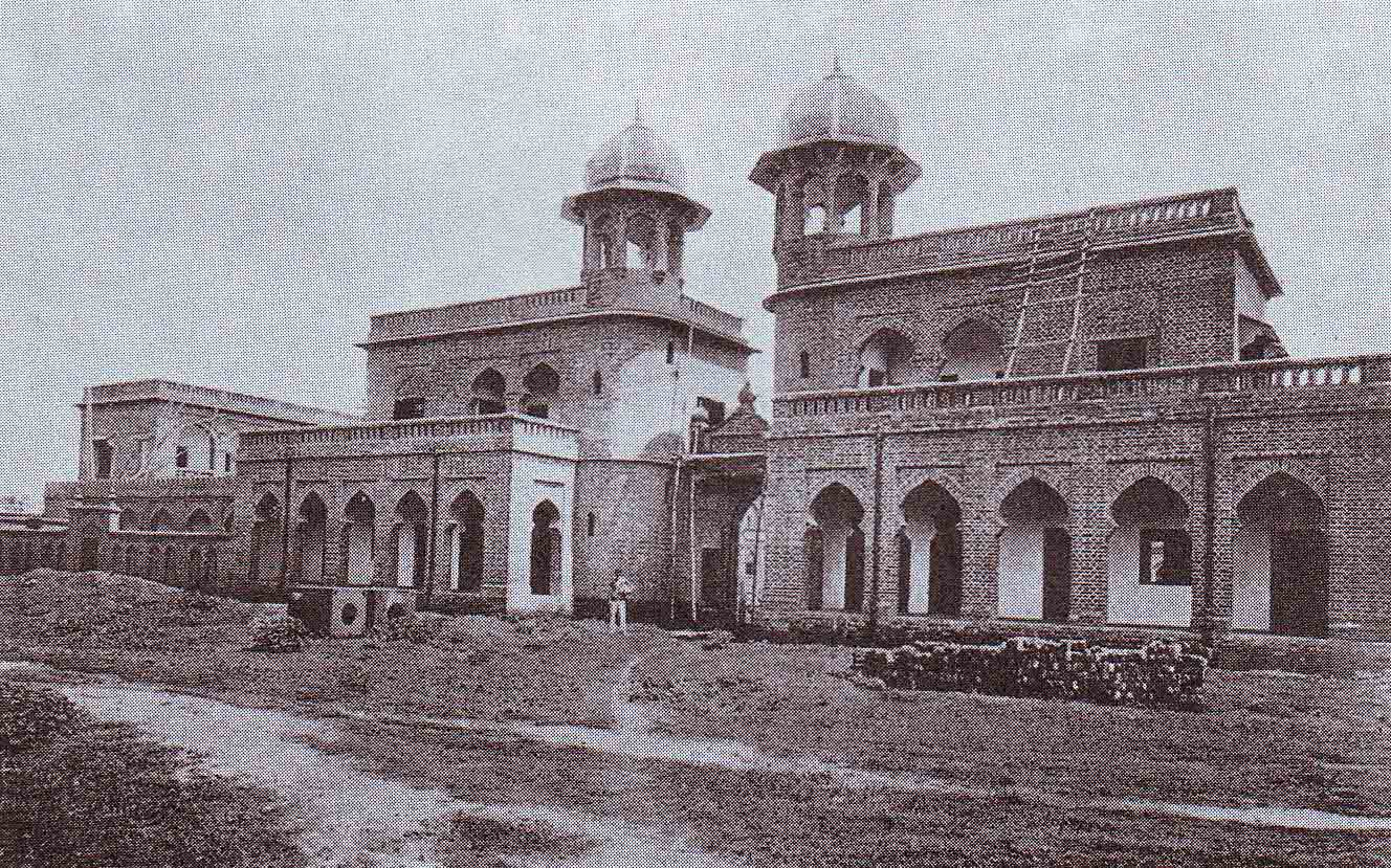 Sohidullah Hall of Dhaka University, which was built at 1908 as a student hostel of Dhaka College. This is the first student hostel built for any Governmental College.